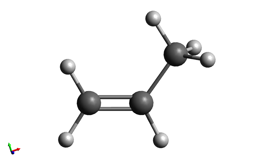 Ball and stick model of the propylene molecule.